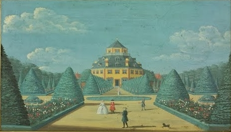 Frydenlund north of Copenhagen, Denmark, as it appeared in 1740 prior to later alterations